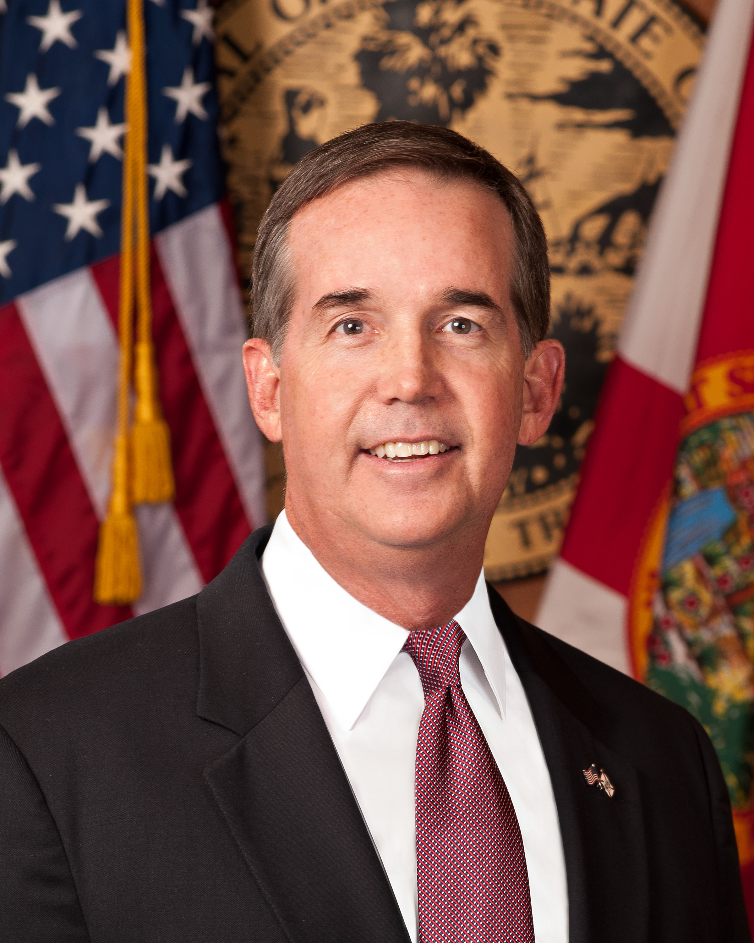 The official portrait of Chief Financial Officer Jeff Atwater (R-Florida)